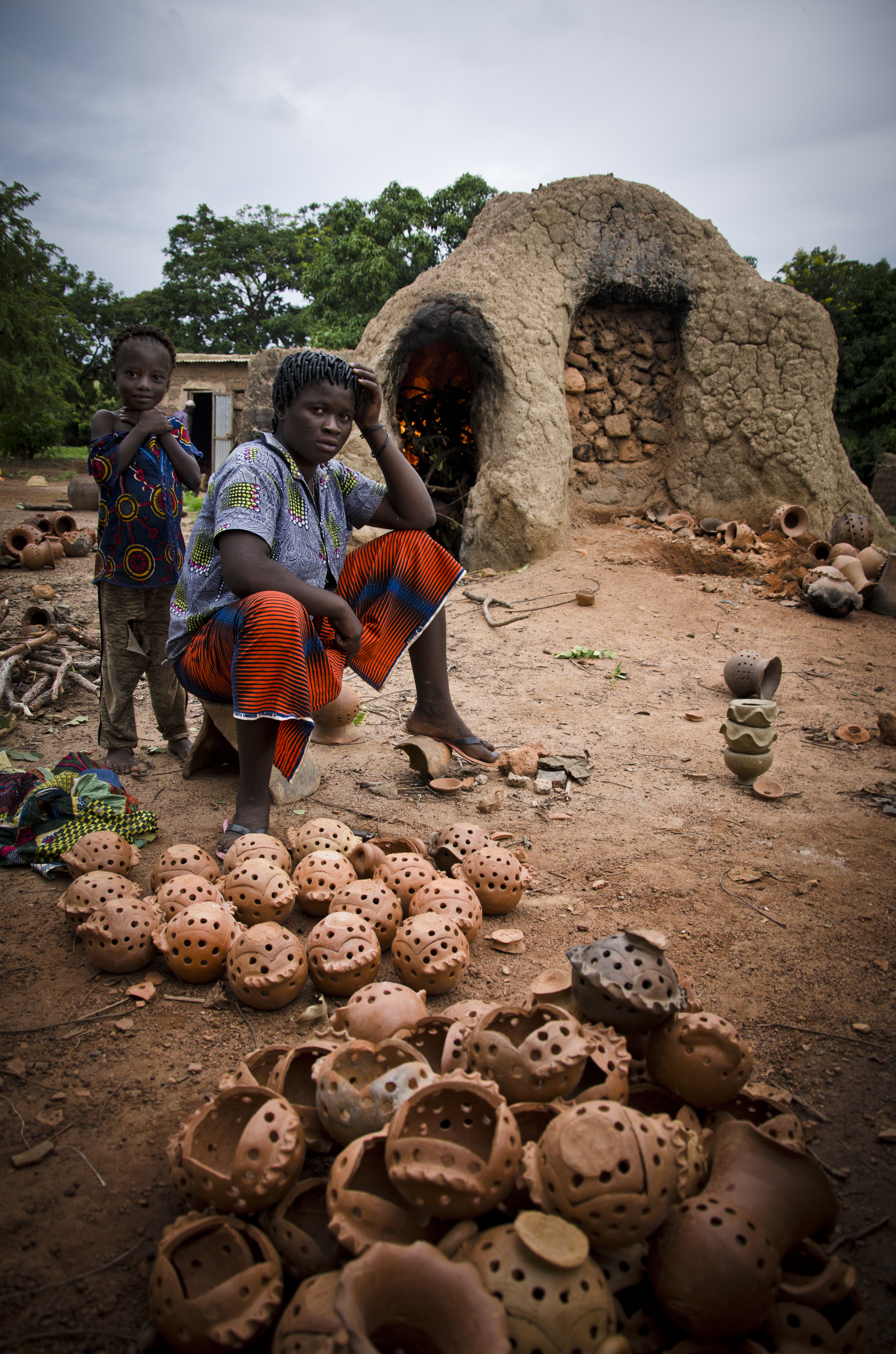 Lobi potter near Gaoua